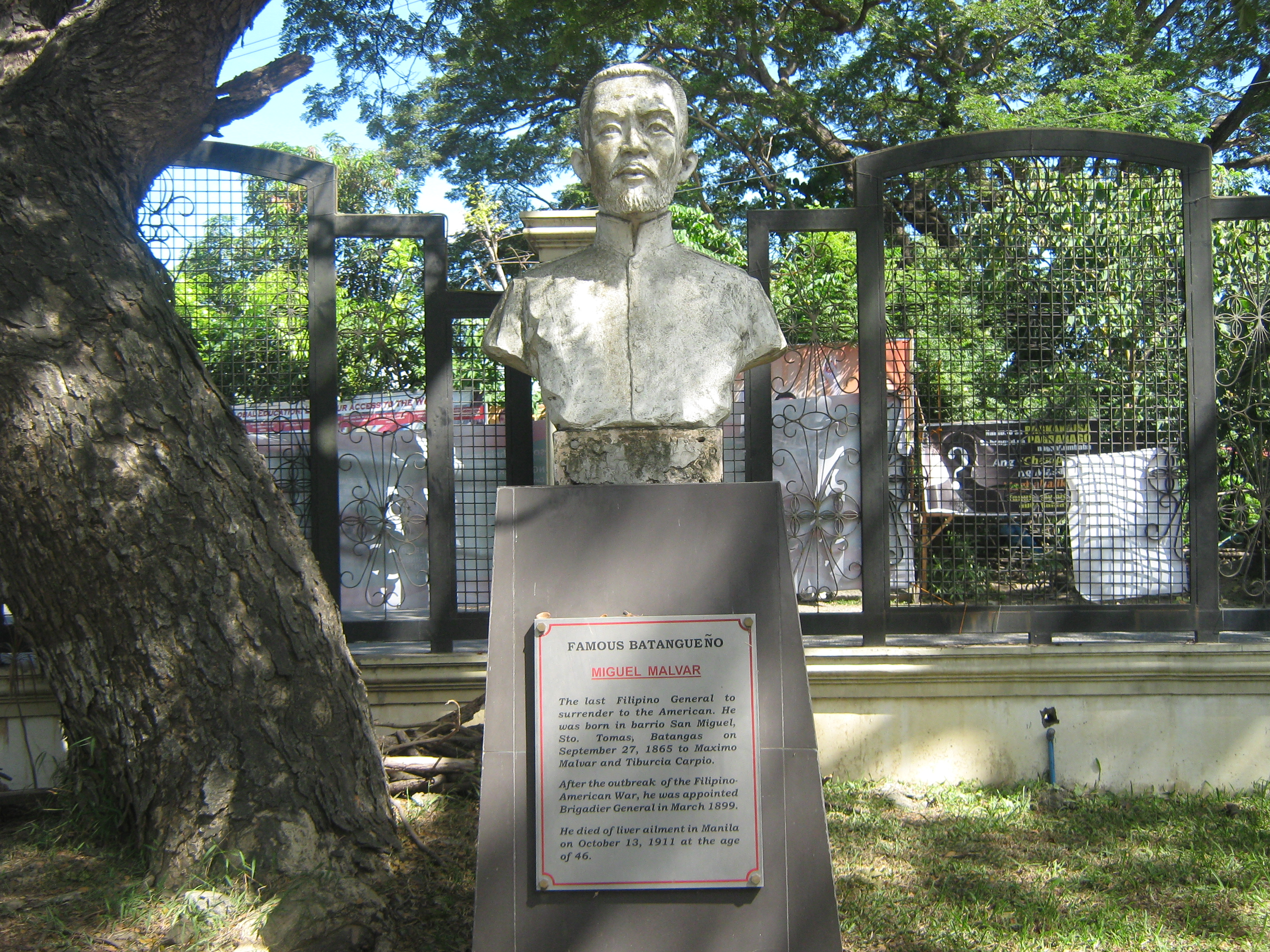 This image depicts the bust of Miguel Malvar located in Plaza Laurel, Brgy. Kumintang Ibaba, Batangas City, Philippines. Tagalog: Ipinapakita ng larawang ito ang Busto ni Miguel Malvar na matatagpuan Plasa Laurel, Brgy. Kumintang Ibaba, Lungsod ng Batangas, Pilipinas.